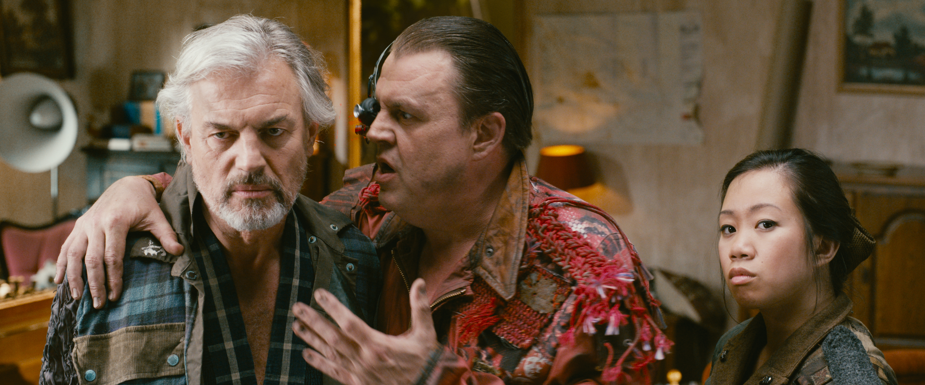 Derek de Lint, Rogier Schippers and Jody Bhe in the short film "Tears of Steel".